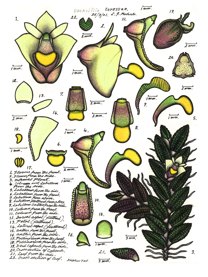 This image is one of a series by Lewis Roberts